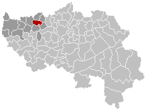 Map, municipality belgium Remicourt